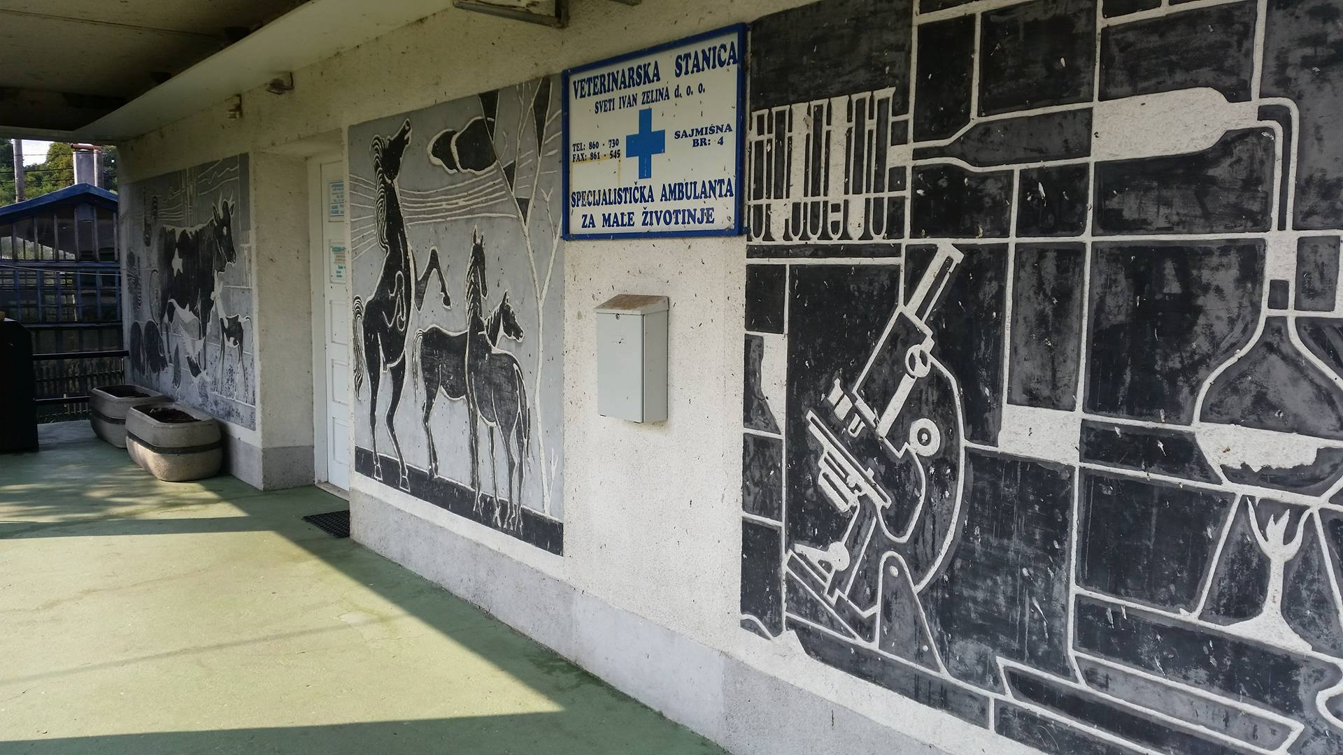 Dinko Vranković: Sgrafitto facade of Veterinary Ambulance in Sveti Ivan Zelina, Croatia, cca 1967.